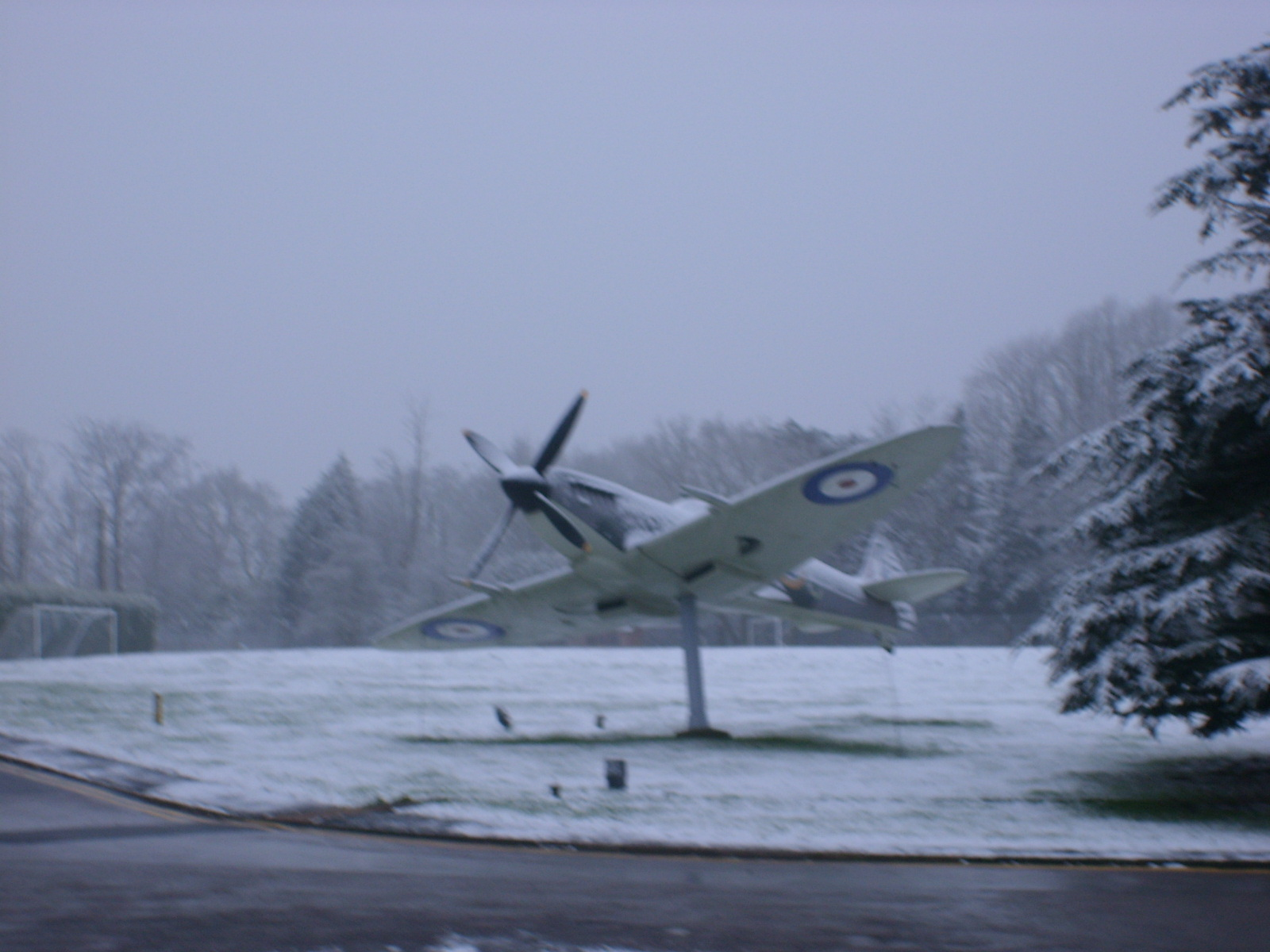 Early snow in January covering a Model Supermarine Spitfire (replaced the original real Spitfire, which was returned to flying condition). The gate guard for old Fighter Command.